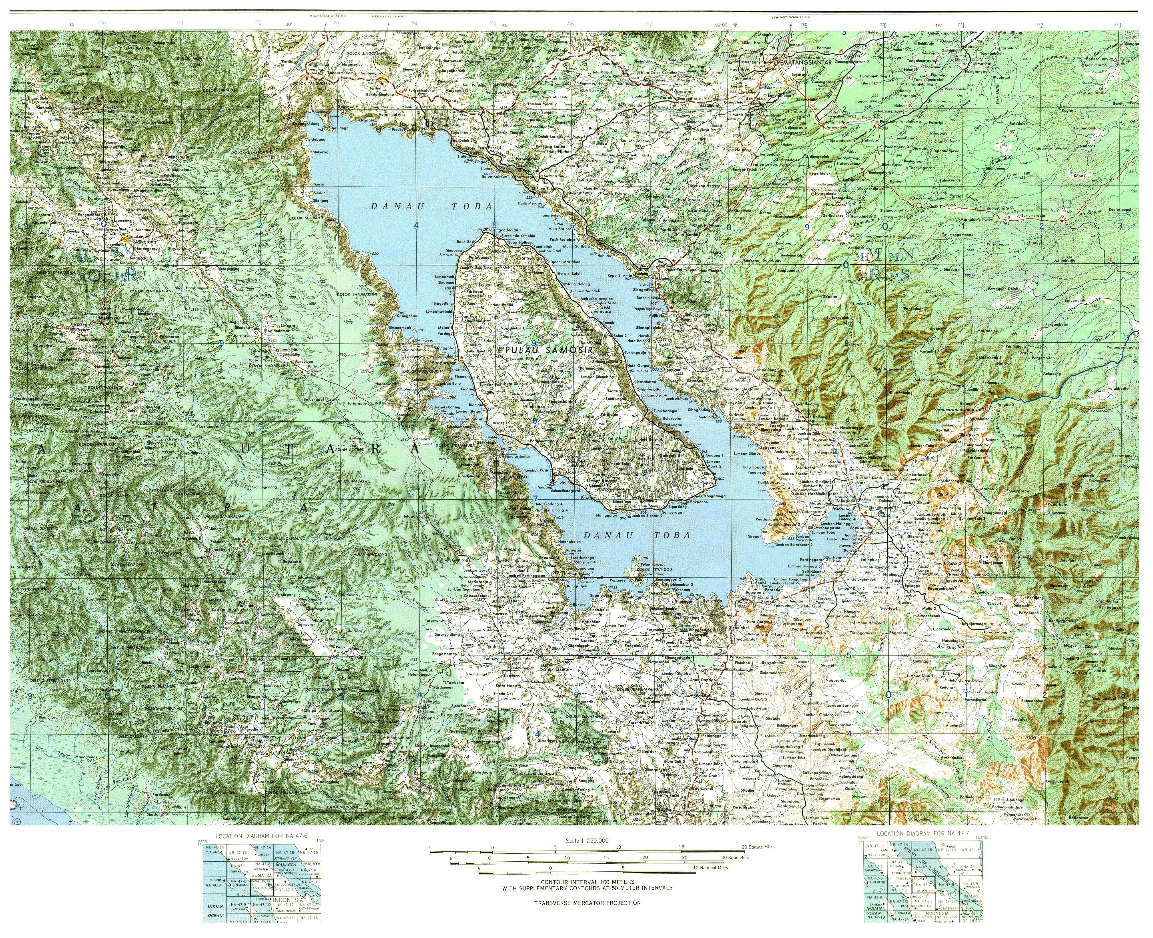 Lake Toba - Danau Toba